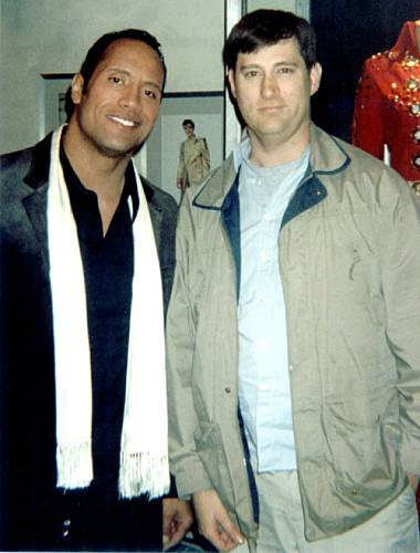 Dwayne Johnson and actor Eric Bruno Borgman on the set of The Game Plan. November 2006